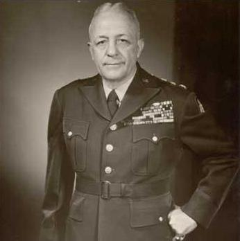 Photo of Lieutenant General William B. Kean as commander of the 5th U.S. Army, headquartered in Chicago.